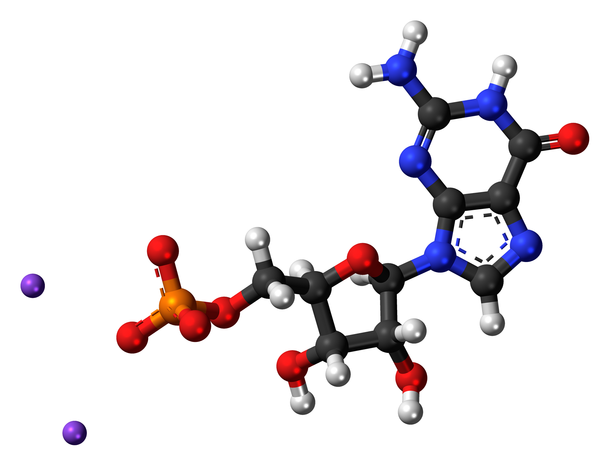 Ball-and-stick model of the component ions of disodium guanylate, a flavor enhancer. Colour code: Carbon, C: black Hydrogen, H: white Oxygen, O: red Nitrogen, N: blue Sodium, Na: lilac Phosphorus, P: orange